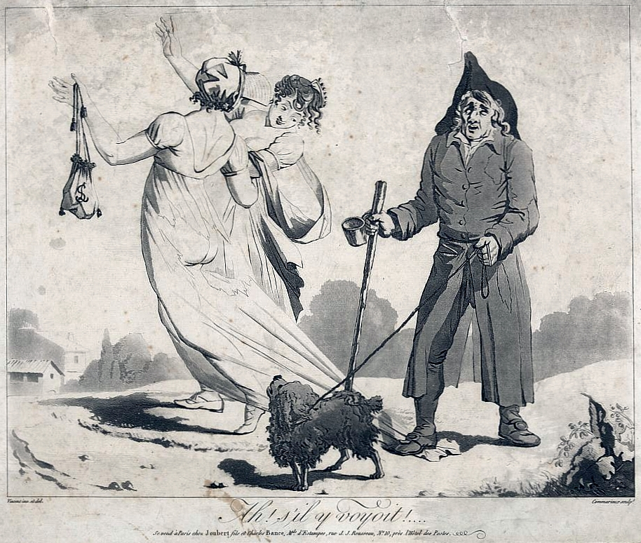 "Ah ! s'il y voyoit !..." ("Ah! What if he could see!"). Library of Congress description: "Print shows two fashionably dressed women walking on a country road and a "blind" beggar with a small dog on a leash and holding a cup and stick in right hand. The man has stepped on the skirt of one of the women causing it to tear, exposing her bare buttocks for the "blind" man to see. A satire on contemporary clothing fashions." Aquatint and etching.